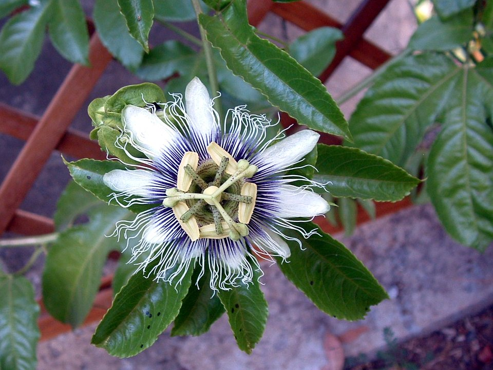 Passiflora edulis, flower